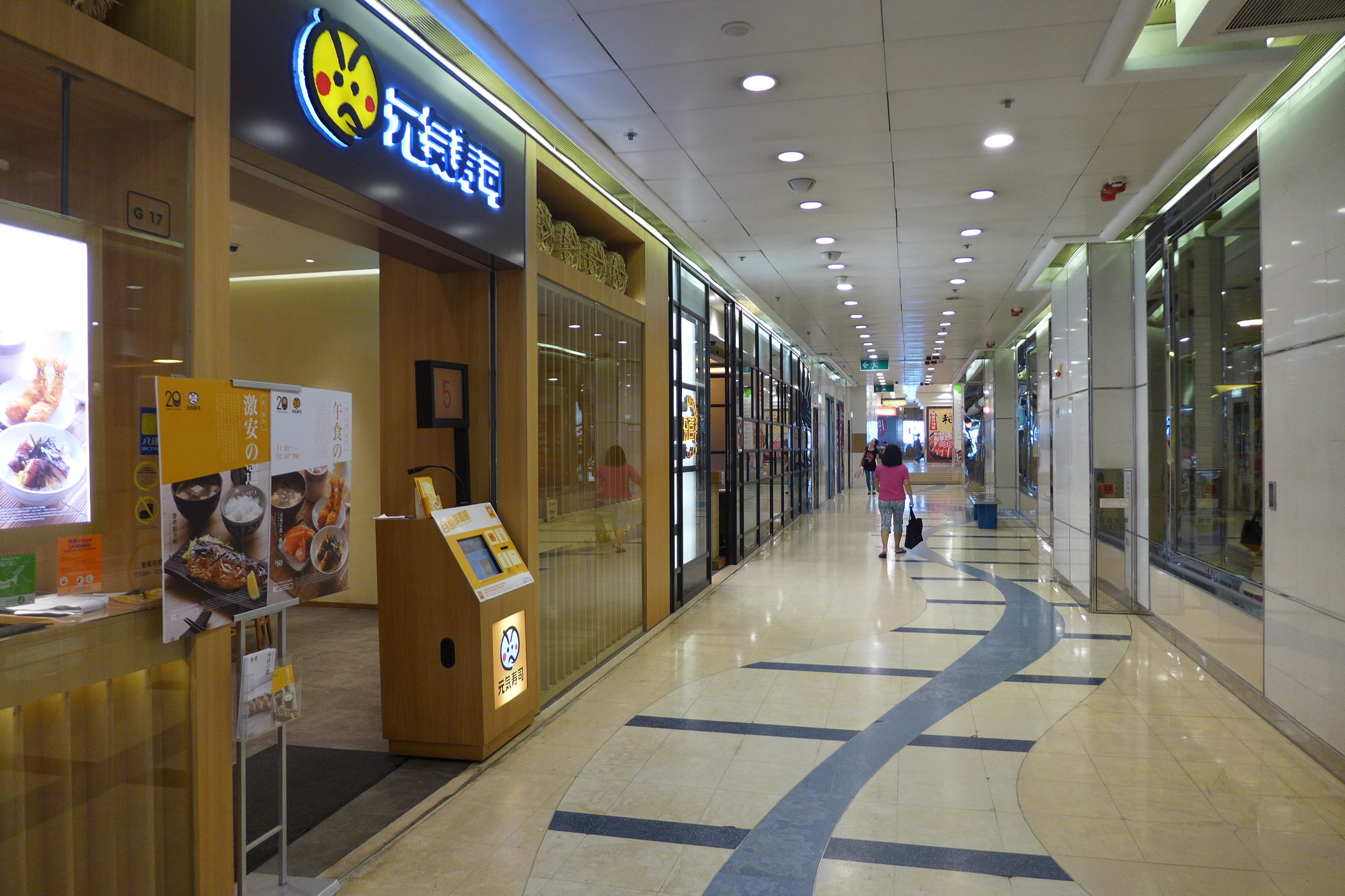 Island Resort Mall GF